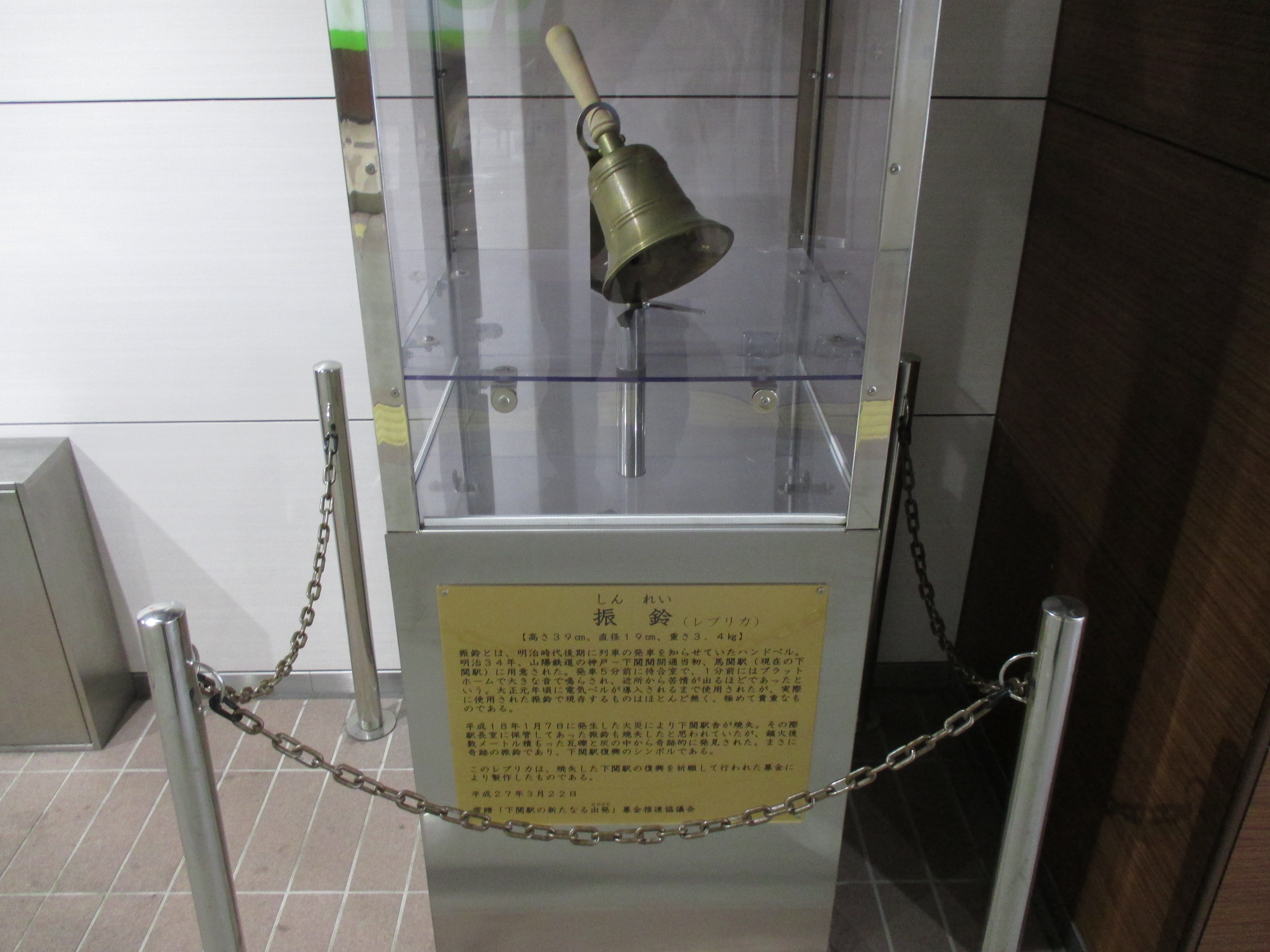 Departure Bell of Shimonoseki station